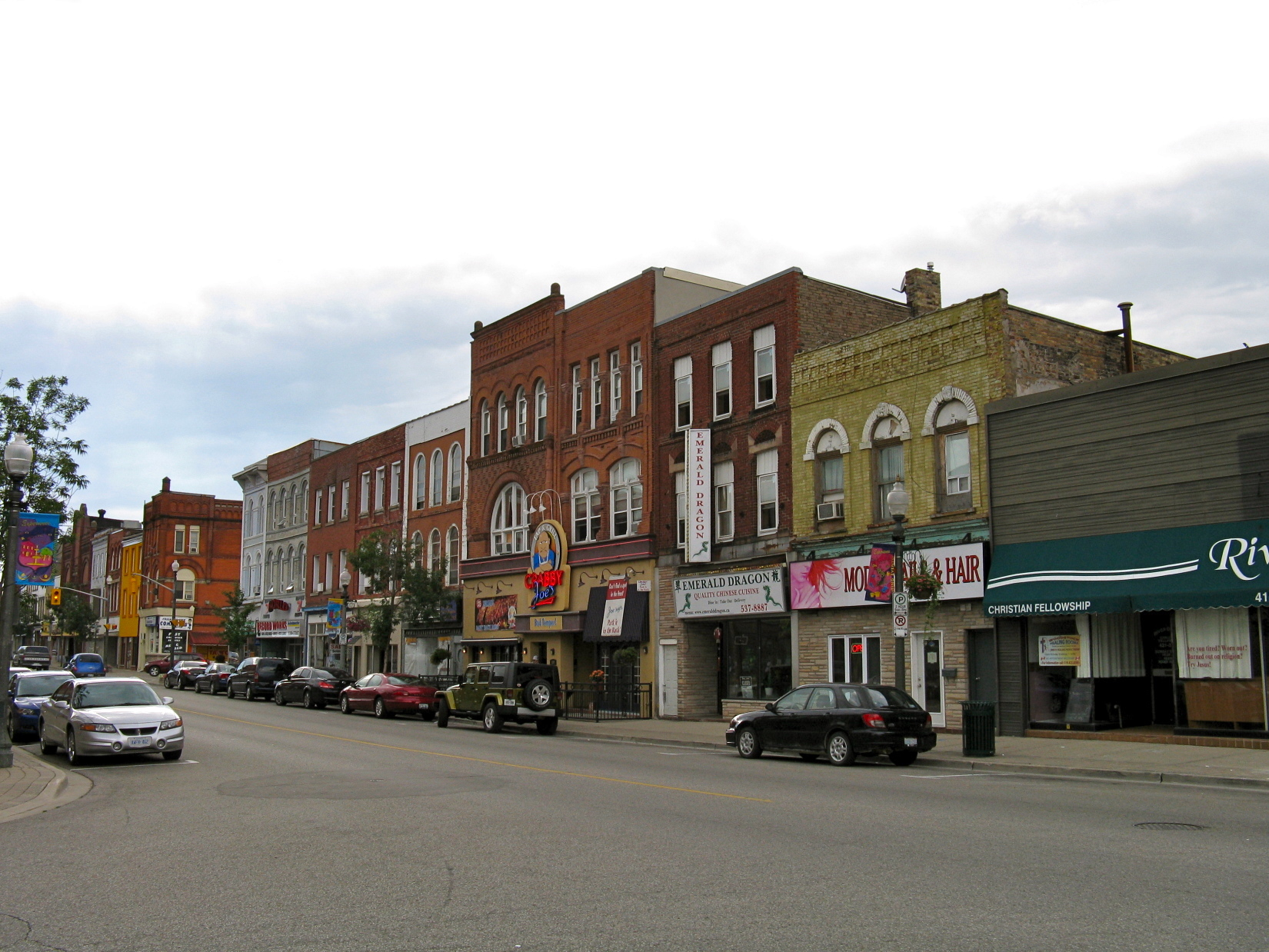 Dundas Street in Woodstock, Ontario.